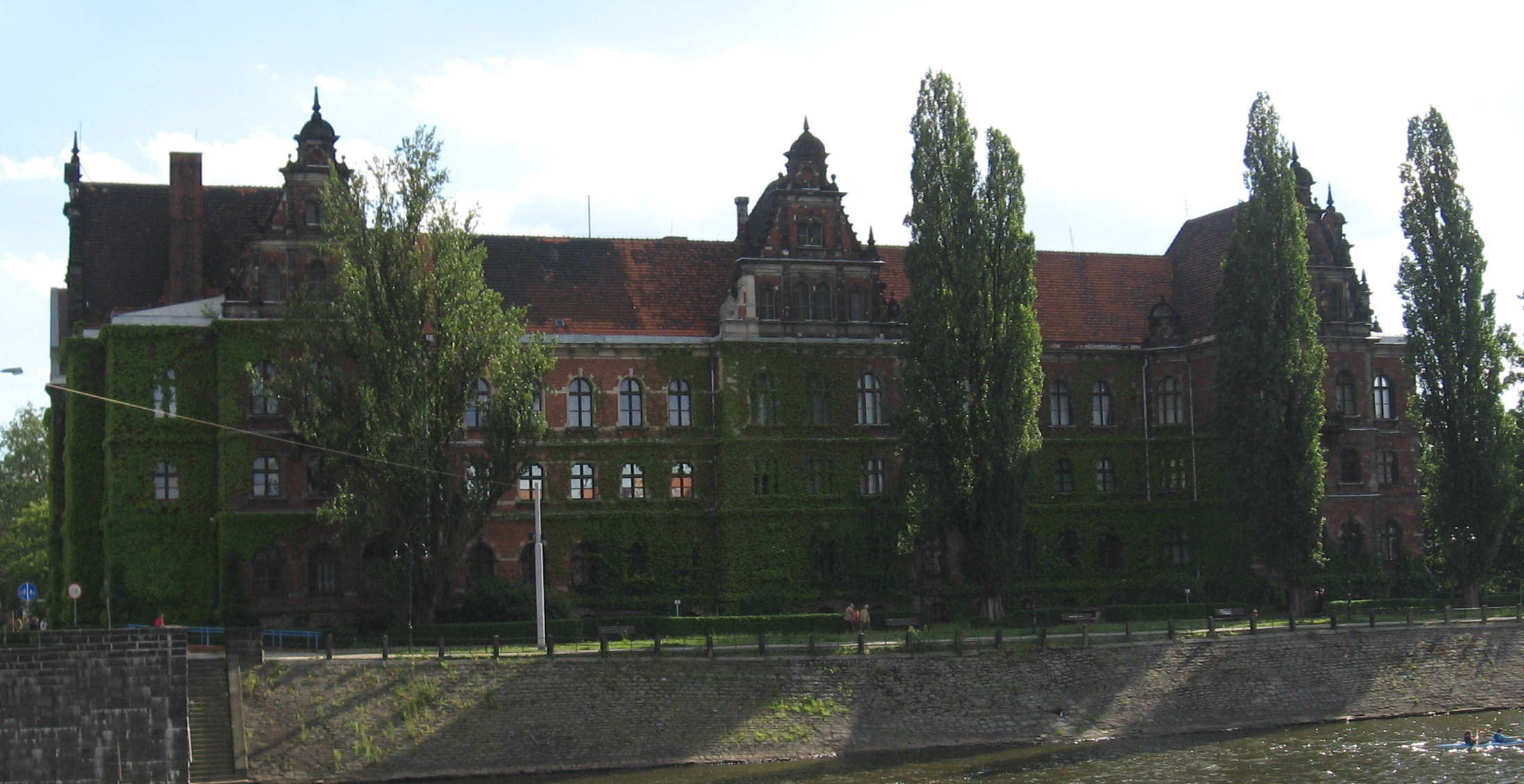 National Museum in Wrocław.